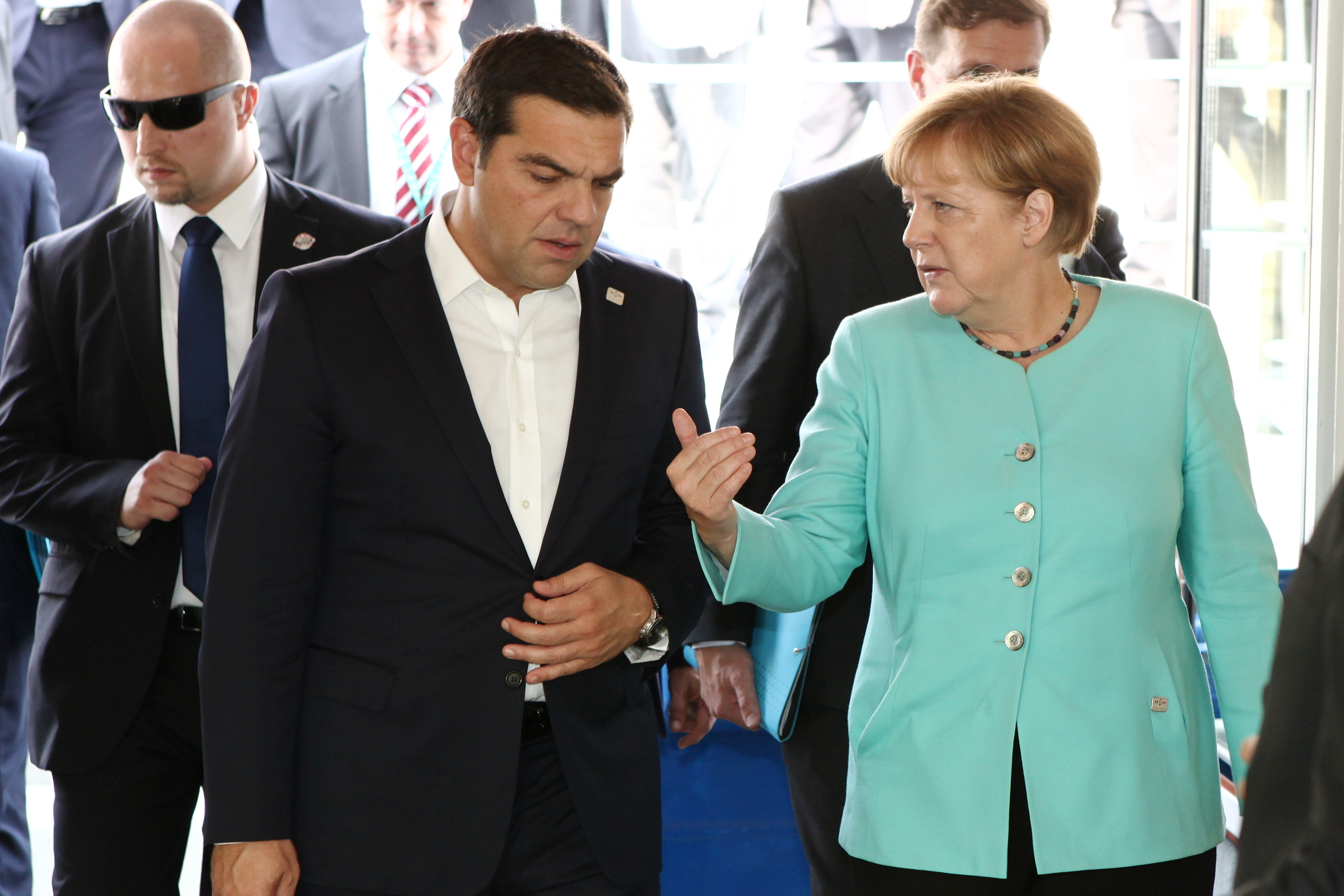 Greece, Mr. Alexios Tsipras, Prime Minister of the Hellenic Republic (L), Germany, Mrs. Dr. Angela Merkel, Federal Chancellor (R) Informal Meeting of 27 Heads of States or Governments Photo: Andrej Klizan